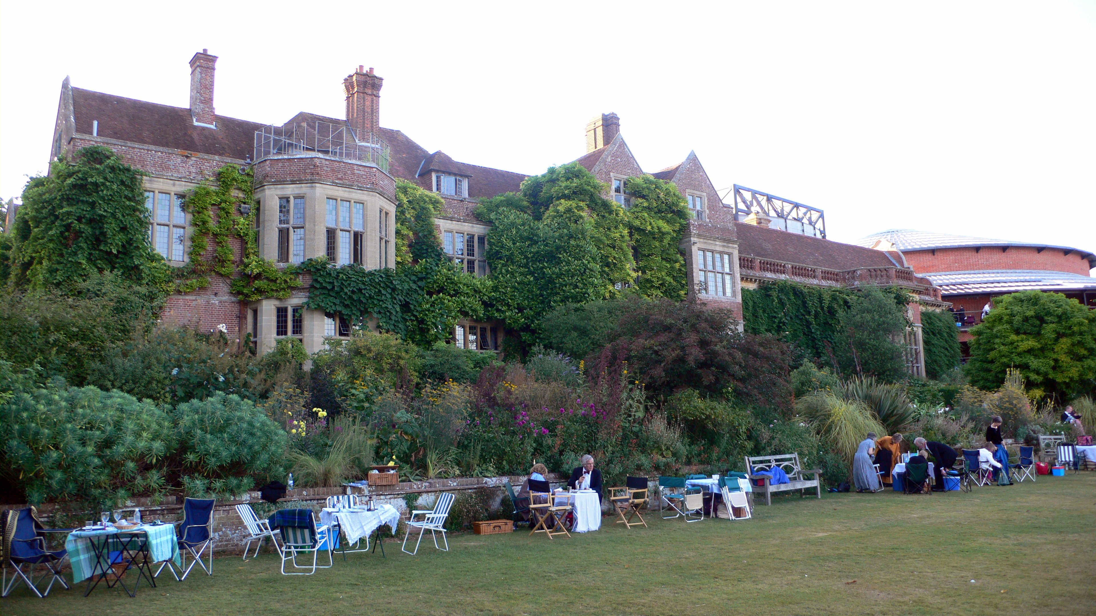 Glyndebourne House with the auditorium in the backgroundGlyndebourne